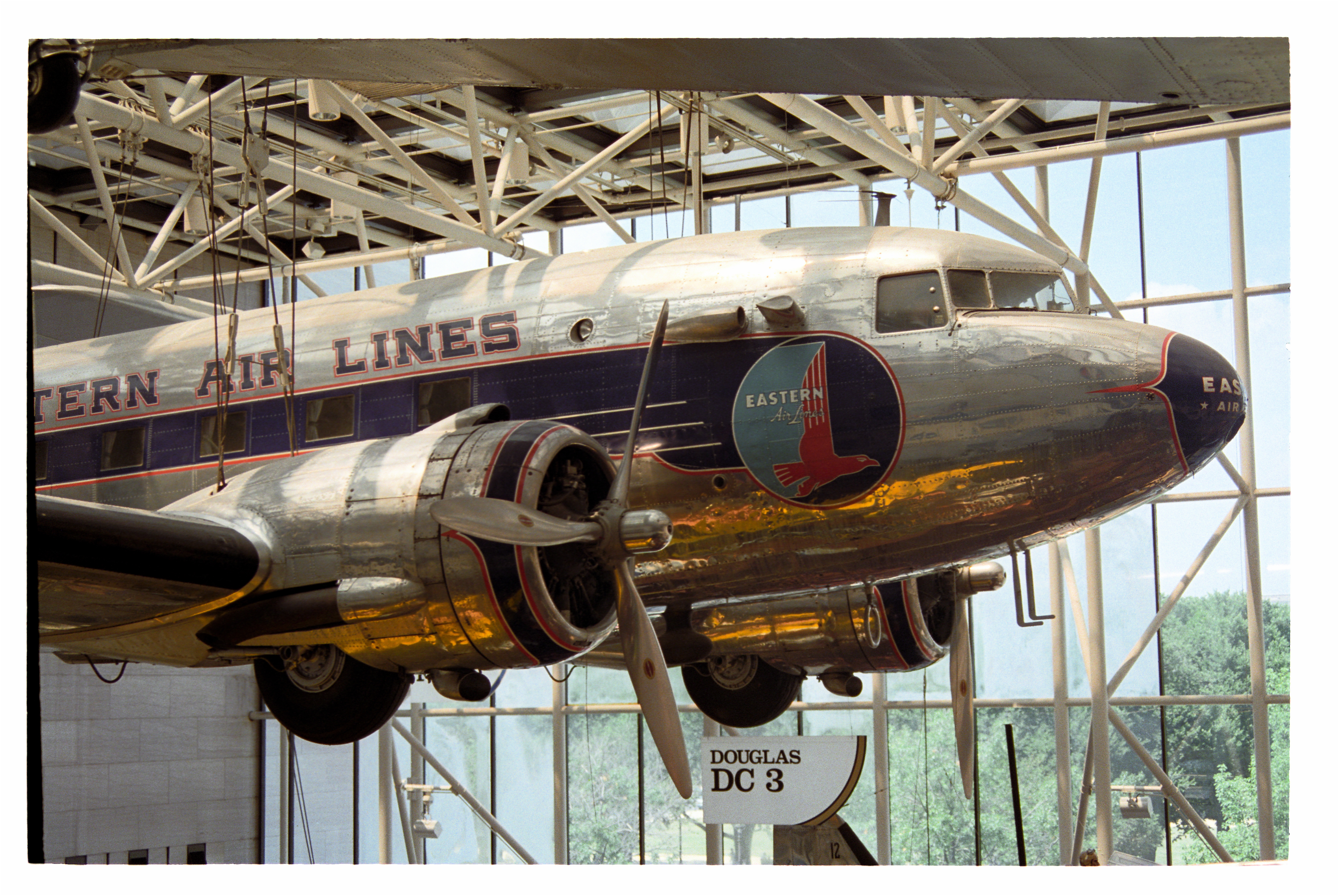 Eastern Air Lines DC-3, Museum of Flight, Washington, DC, July 1995